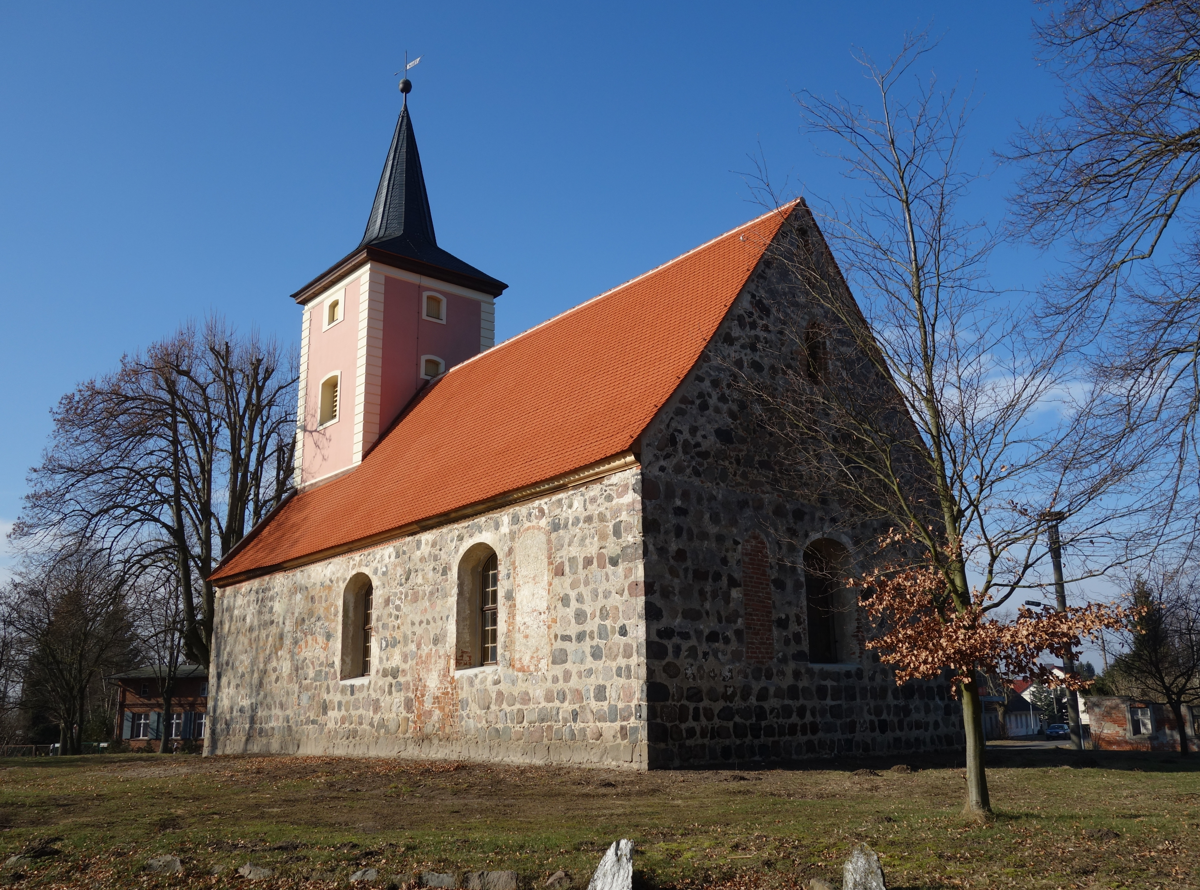 South-eastern view of the church in Buskow , Neuruppin municipality , Ostprignitz-Ruppin district, Brandenburg state, Germany.